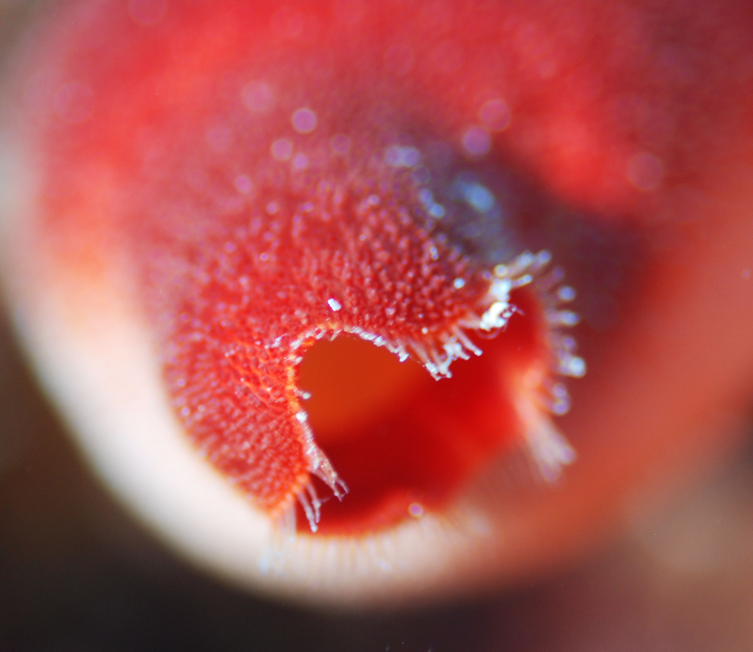 Halocynthia papillosa (detail)